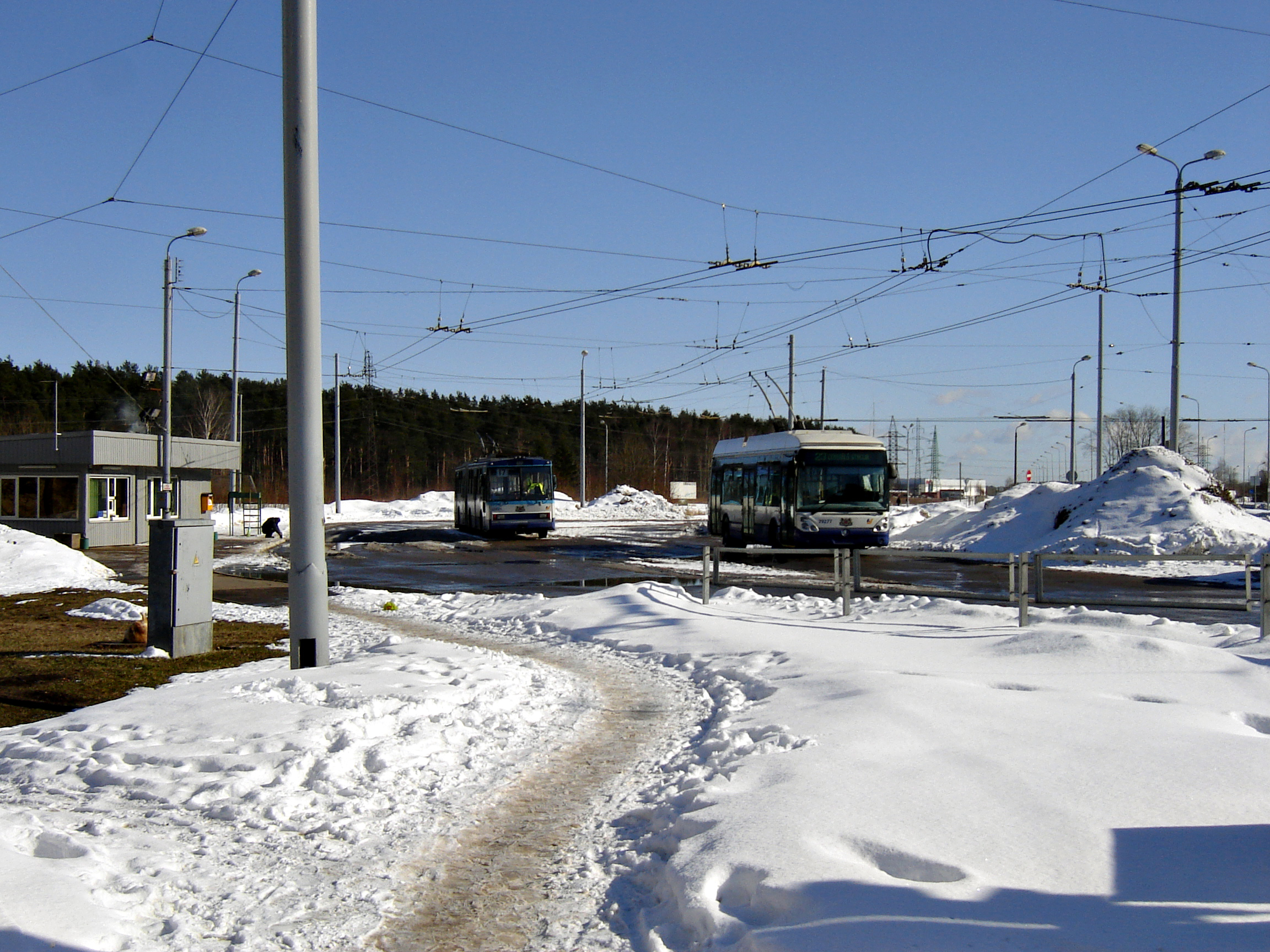 Purvciems trolleybus final stop